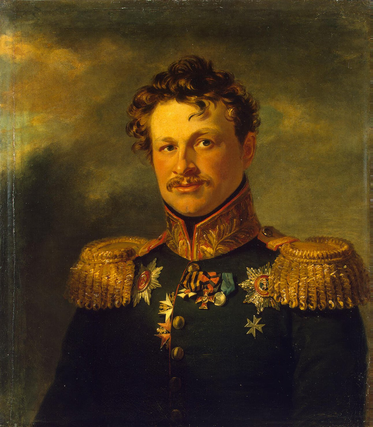 von Gessen-Filipstal, Landgraf Ernest Konstantin (08.08.1771 – after 1836) russian general of the cavalry